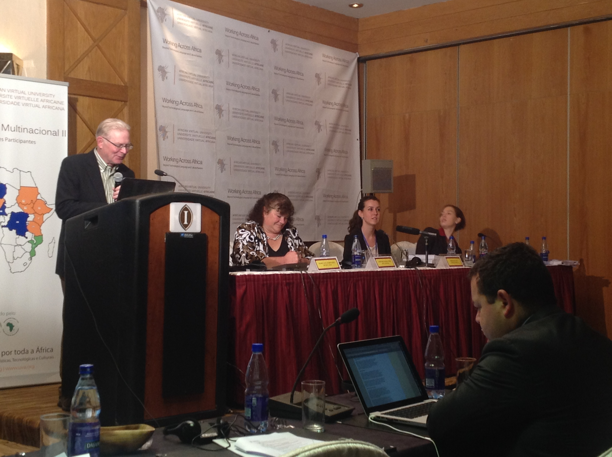 AVU Conference - crowdsourcing translation panel African Virtual University 1st International Conference. November 22, 2013. Photo CC BY James Glapa-Grossklag